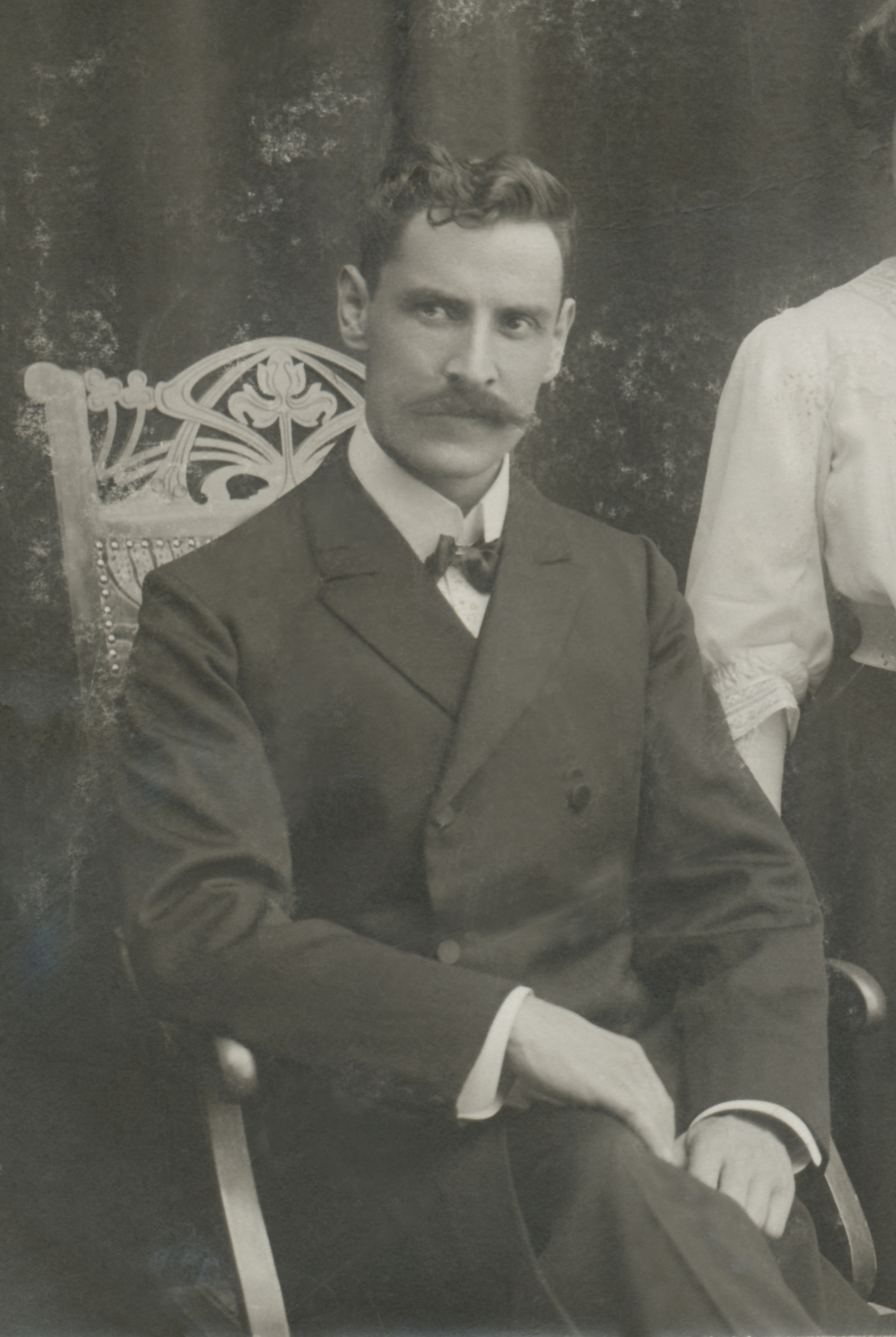 The sculptor Rudolf Moroder Lenert (1877 - 1914) around 1905